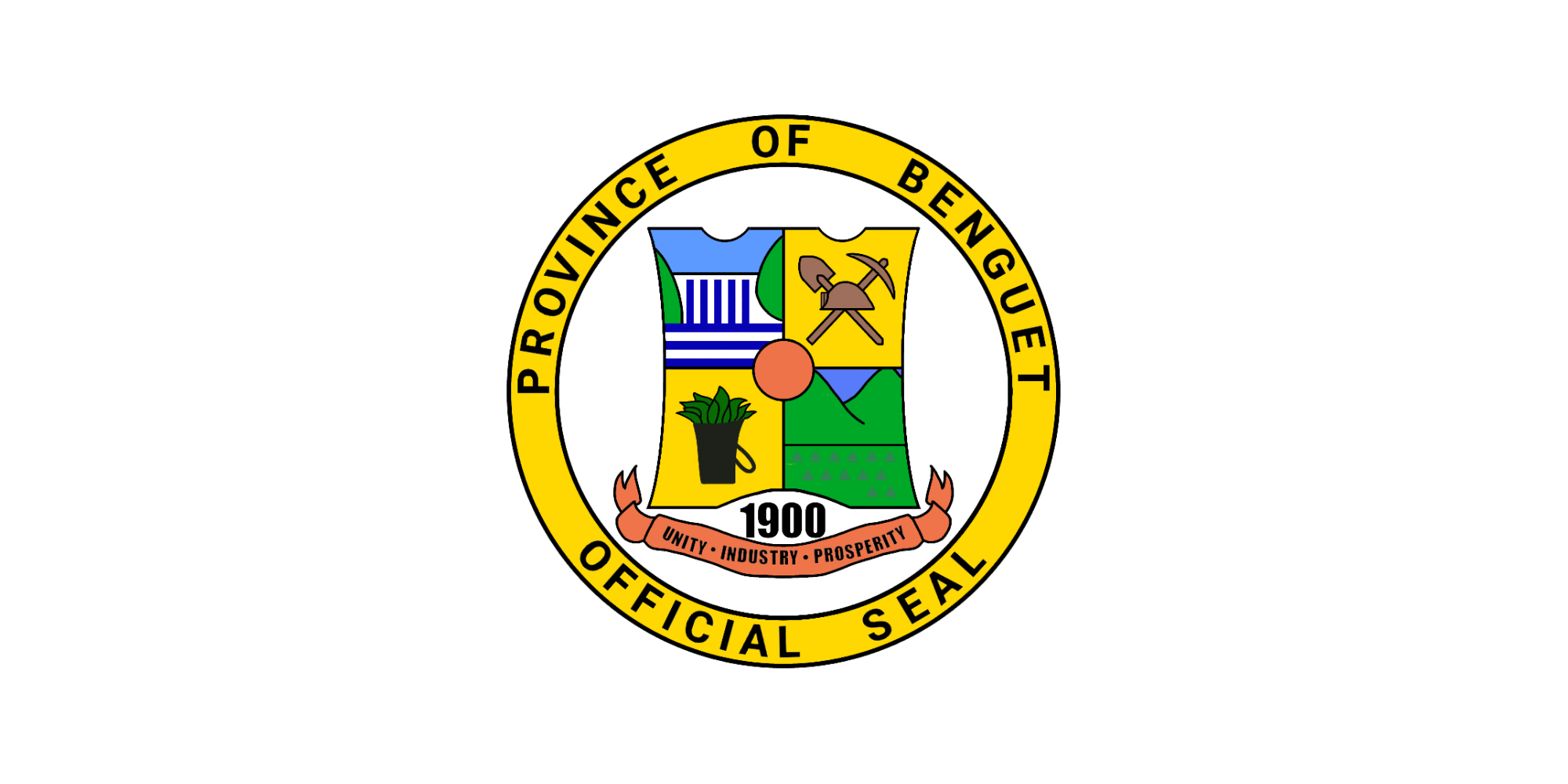 Provincial Flag of Benguet